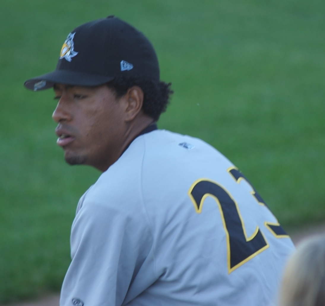 South Bend @ West Michigan 09092007 Second Round of the Championship playoff